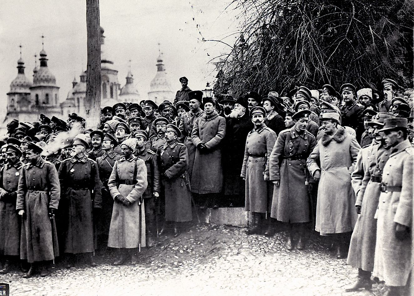 A meeting in the centre of Kyiv in 1917